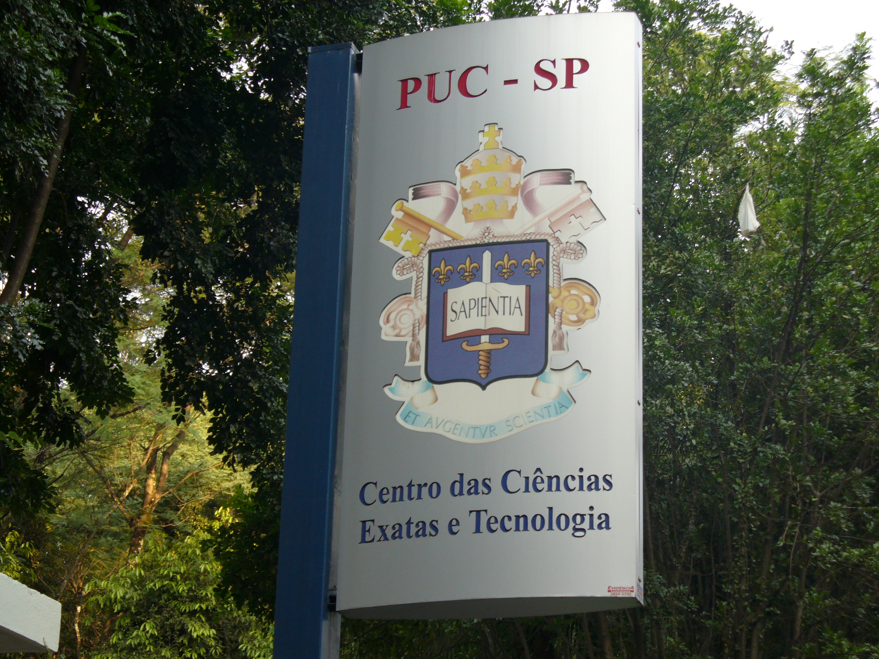 PUCSP - Centro das Ciências Exatas e Tecnologia